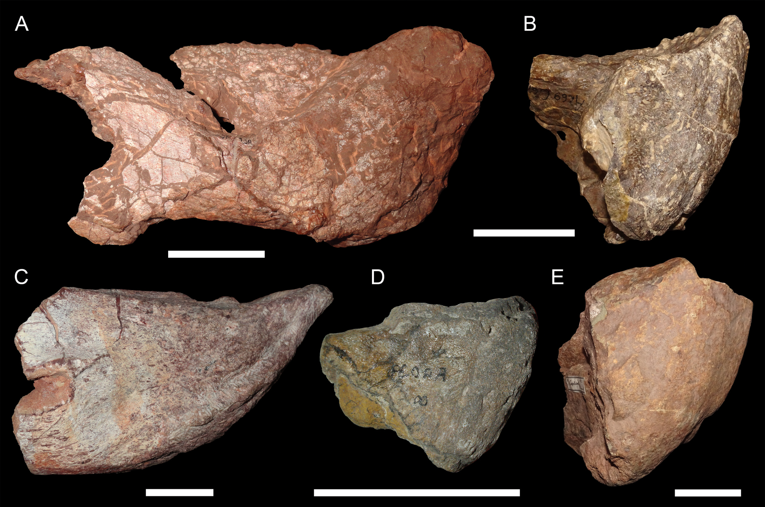 Anterior portions of stahleckeriid mandibles in lateral view: A, Moghreberia nmachouensis (MNHN.ALM.167); B, Placerias hesternus (GPIT/RE/9578); C, Stahleckeria potens (AMNH FARB 7804); D, Zambiasaurus submersus (NHMUK R9039); E, Pentasaurus goggai (NHMW 1876-VII-B-114). Note relatively tall, steep symphyses of placeriines (A, B, D, E) compared to the more elongate, gently curved symphysis of a typical stahleckeriine (C). Scale bars equal 5 cm.